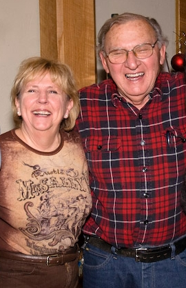 Madonna's father Silvio "Tony" Ciccone and step-mother Joan Gustafson in their Ciccone Vineyard & Winery in 2009.